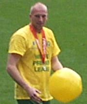 John Ruddy with 2010–11 Football League Championship runners-up medal, taken at Norwich City's home match against Coventry City on 7 May 2011.